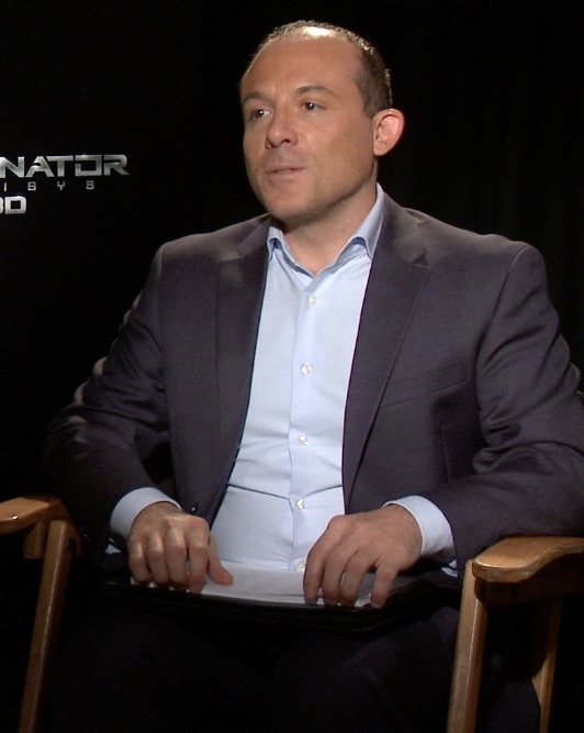 Daniele Compatangelo at Termintator Genesin (2015) Press Junkets in Los Angeles, while interviewing Arnold Schwarzenegger.